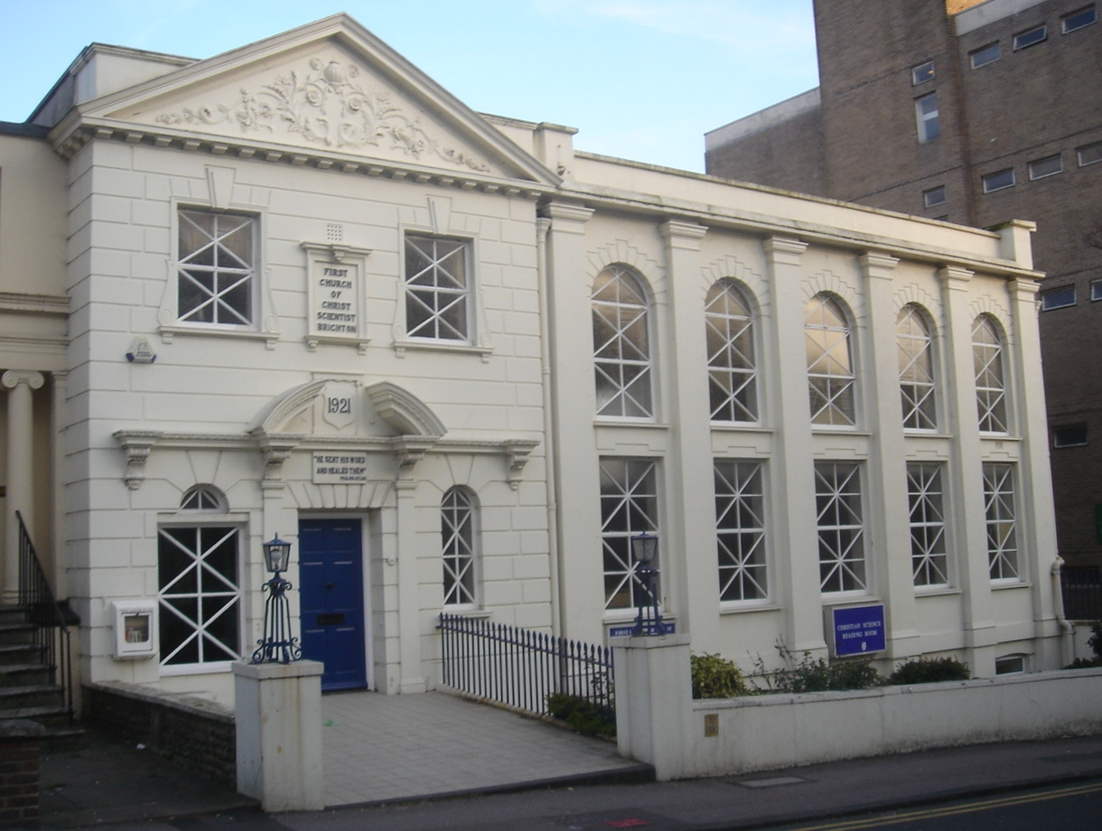 First Church of Christ Scientist (Christian Science church), Montpelier Road, Brighton, City of Brighton and Hove, England. Converted from a 19th-century house in 1921.